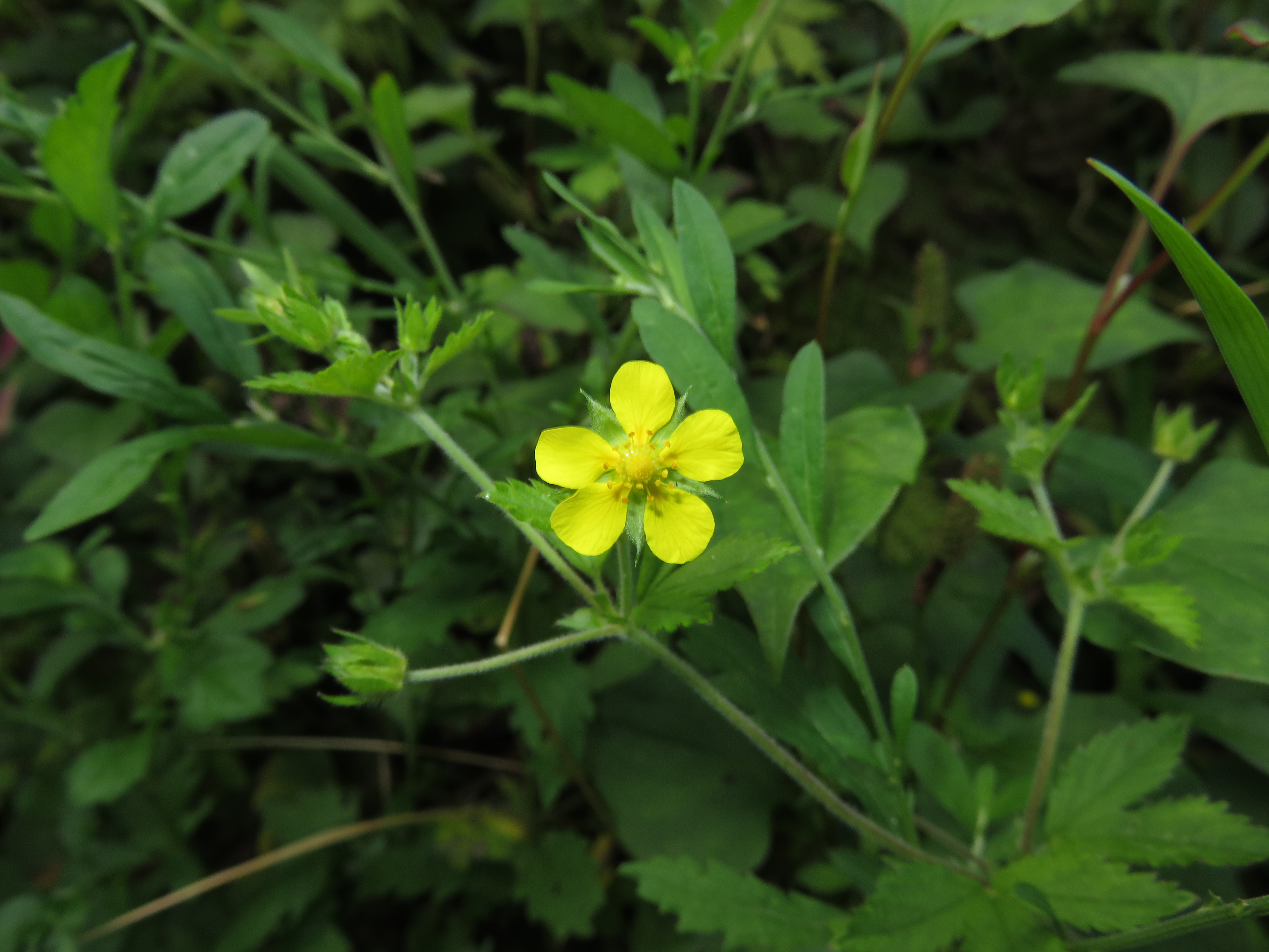 Potentilla cryptotaeniae, Aizu area, Fukushima pref., Japan